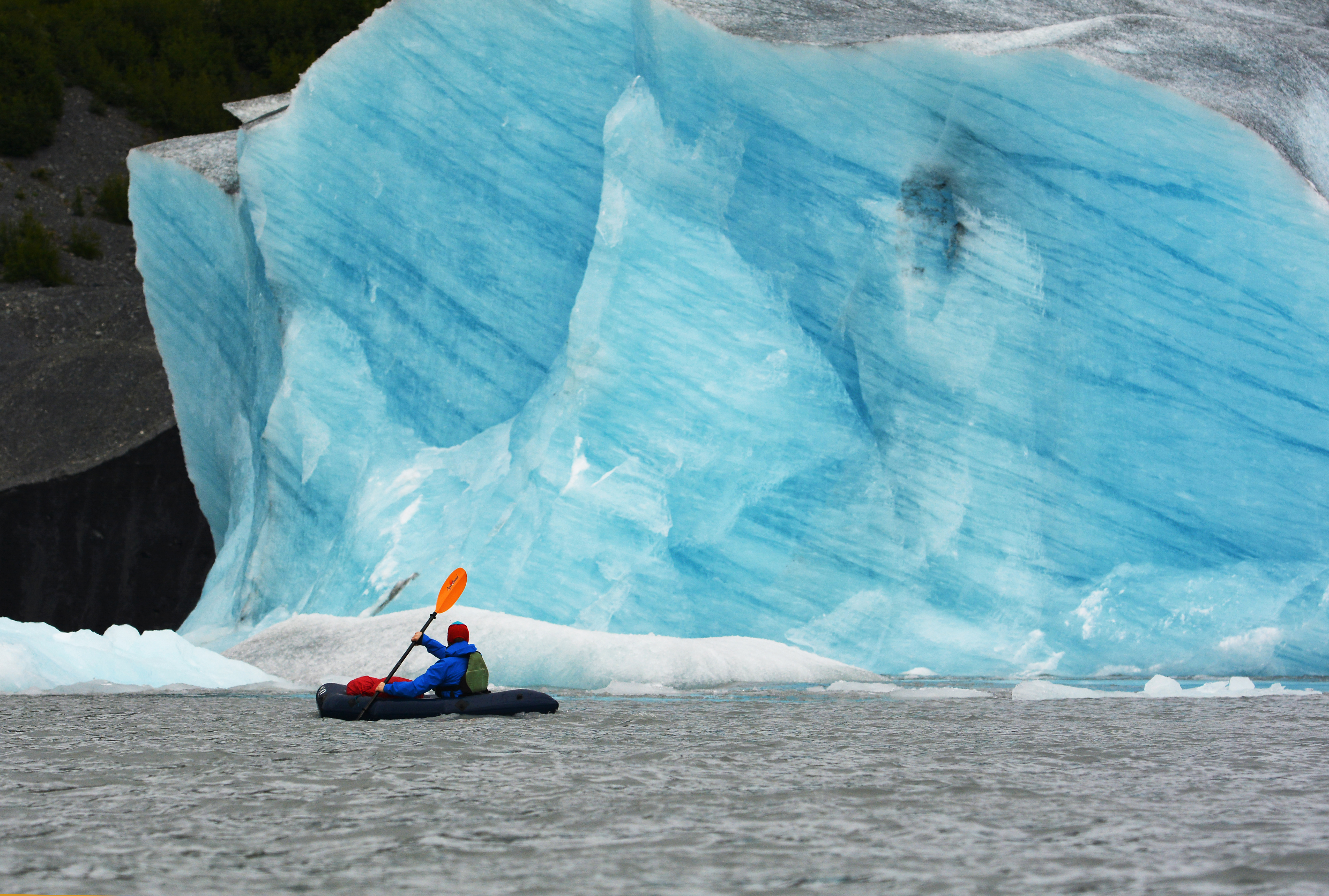 A packrafter paddles in front of a fresh face of blue glacial ice on Spencer Glacier.